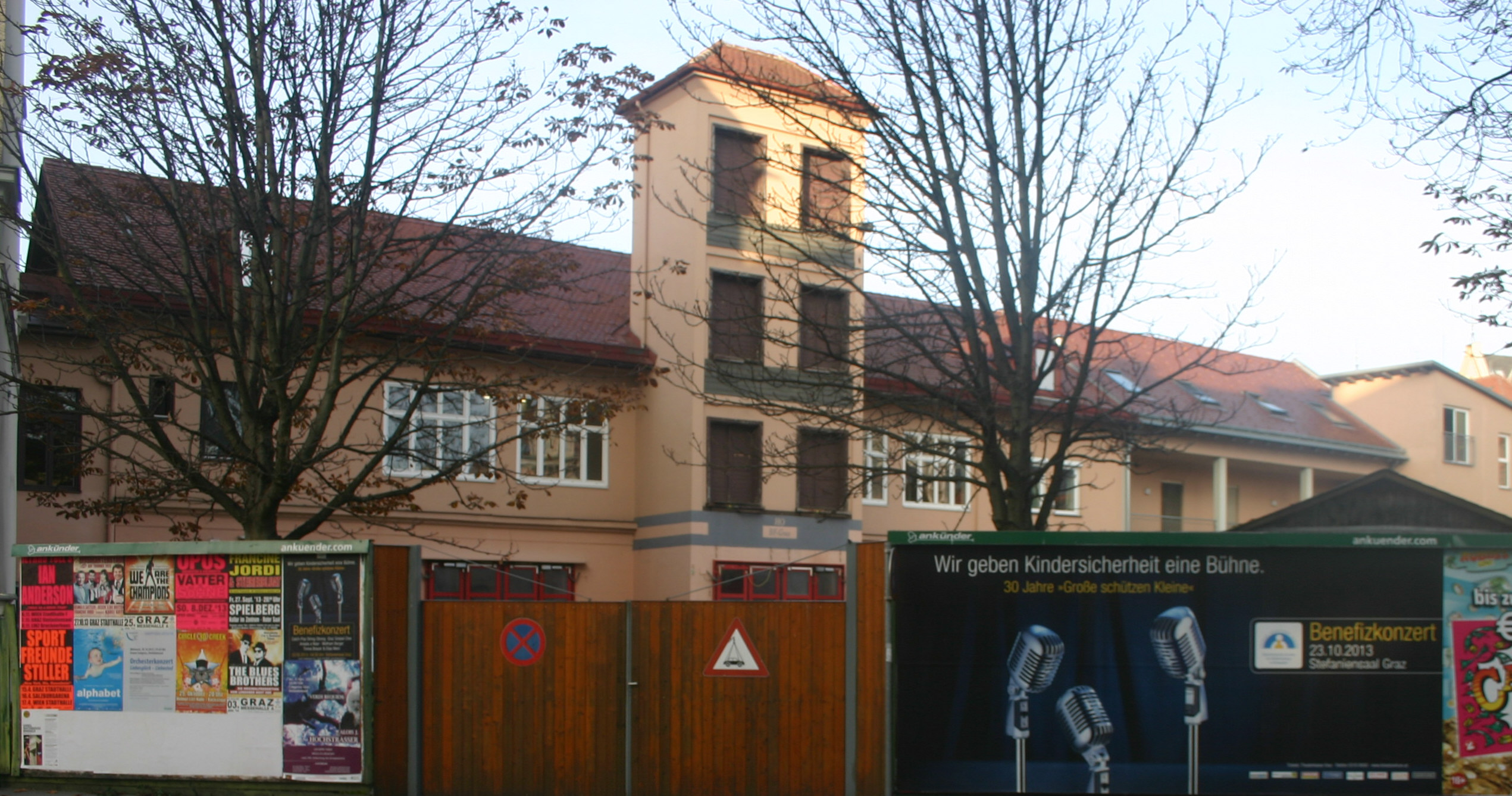 Main fire station East of the career fire brigade in Graz